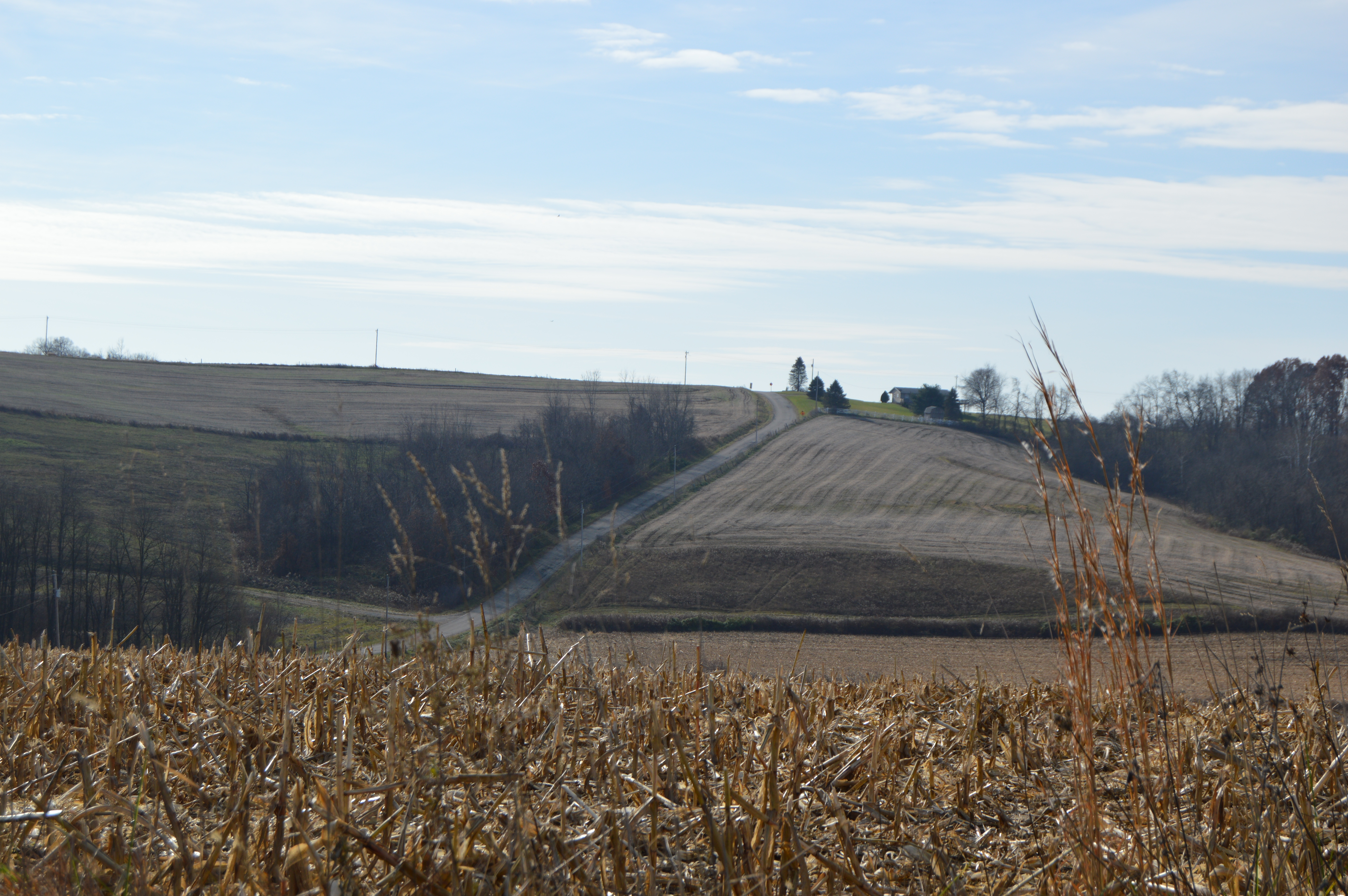 Fields along Perine Road in far western Springfield Township, Muskingum County, Ohio, United States.